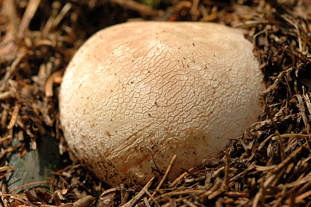 Phallus impudicus from Commanster, Belgium. The determination of the species shown in this picture has been verified.